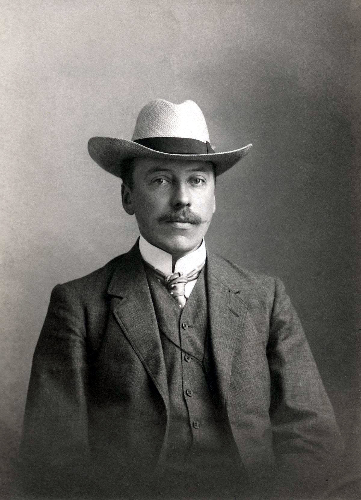 Bernardus Dirk Eerdmans, professor theology at Leiden University.